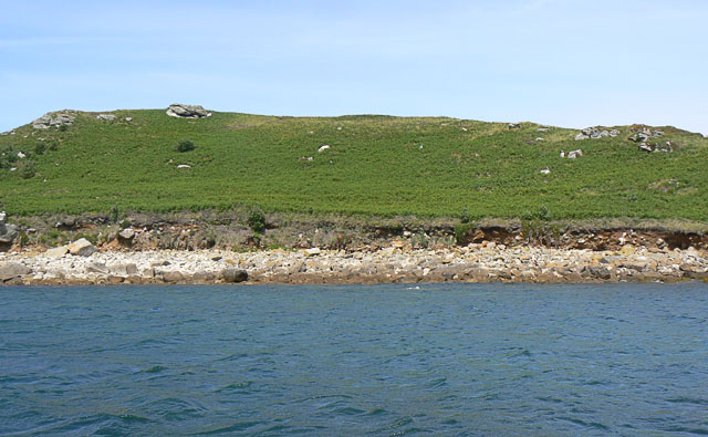 Low cliffs on St Helen's, Isles of Scilly. These low cliffs on the eastern side of St Helens are a breeding ground for Kittiwakes 1618456. The vegetation above is grassy, but with much bracken cover.